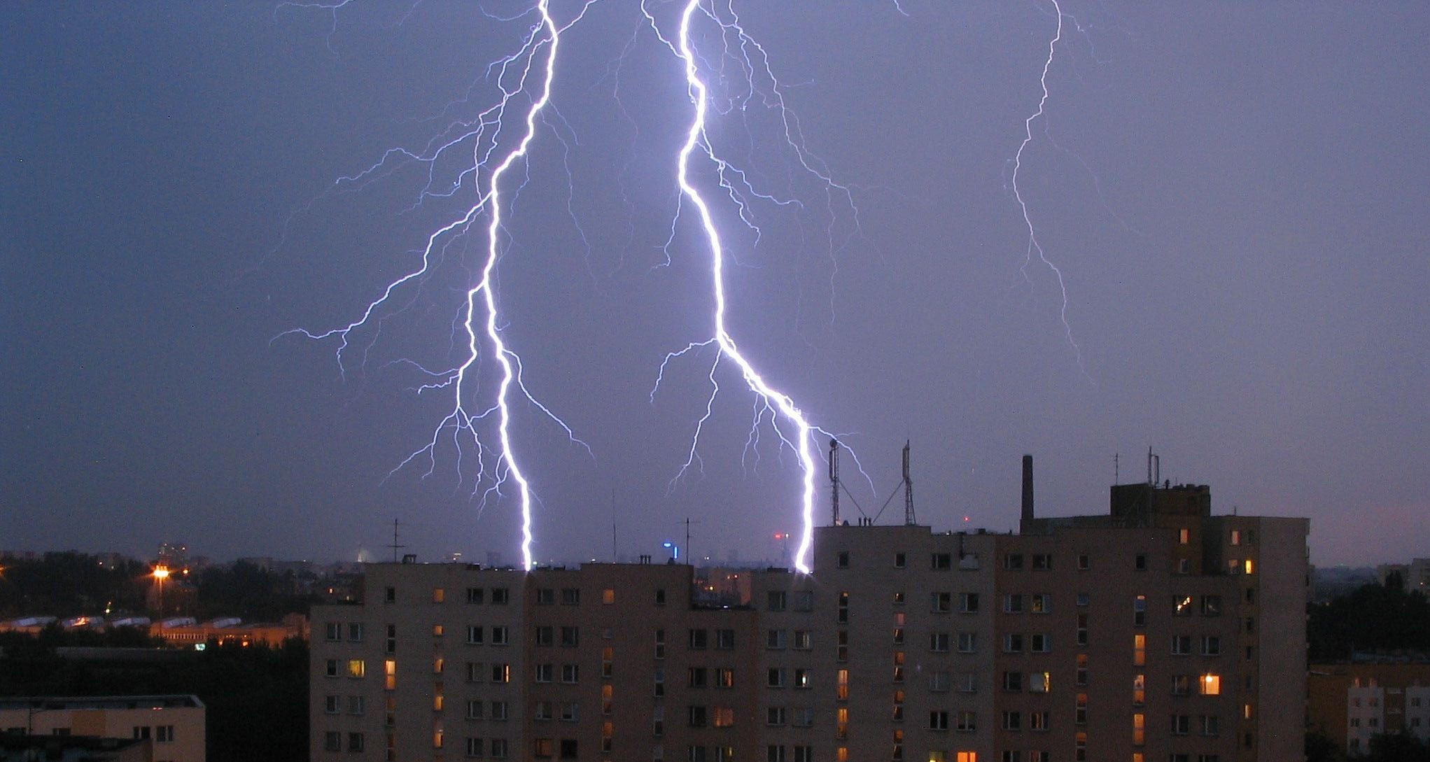 Storm in Warsaw (Poland)